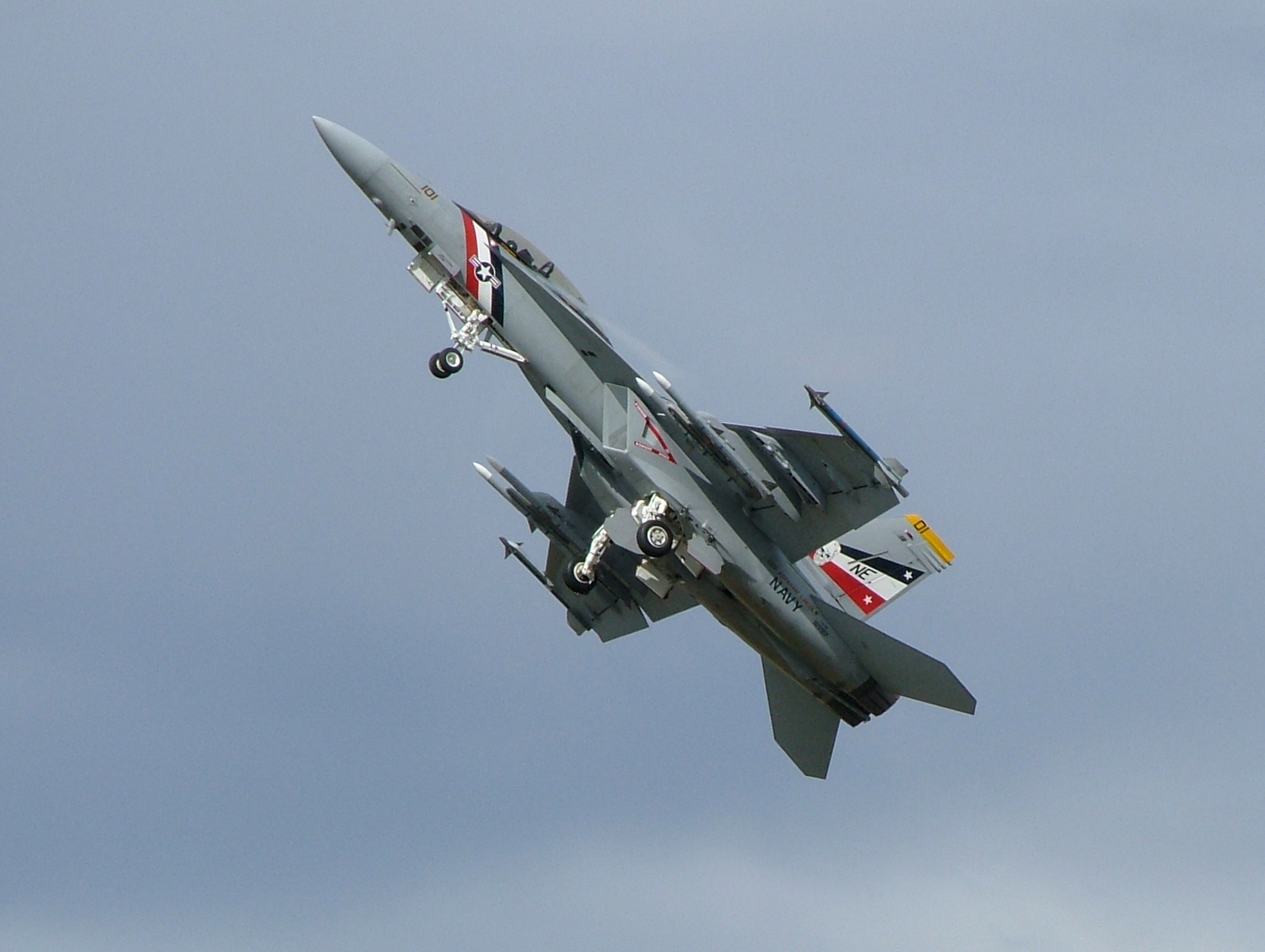 F/A-18F Super Hornet at RIAT 2004. Shows Super Hornet climbing steeple after takeoff.